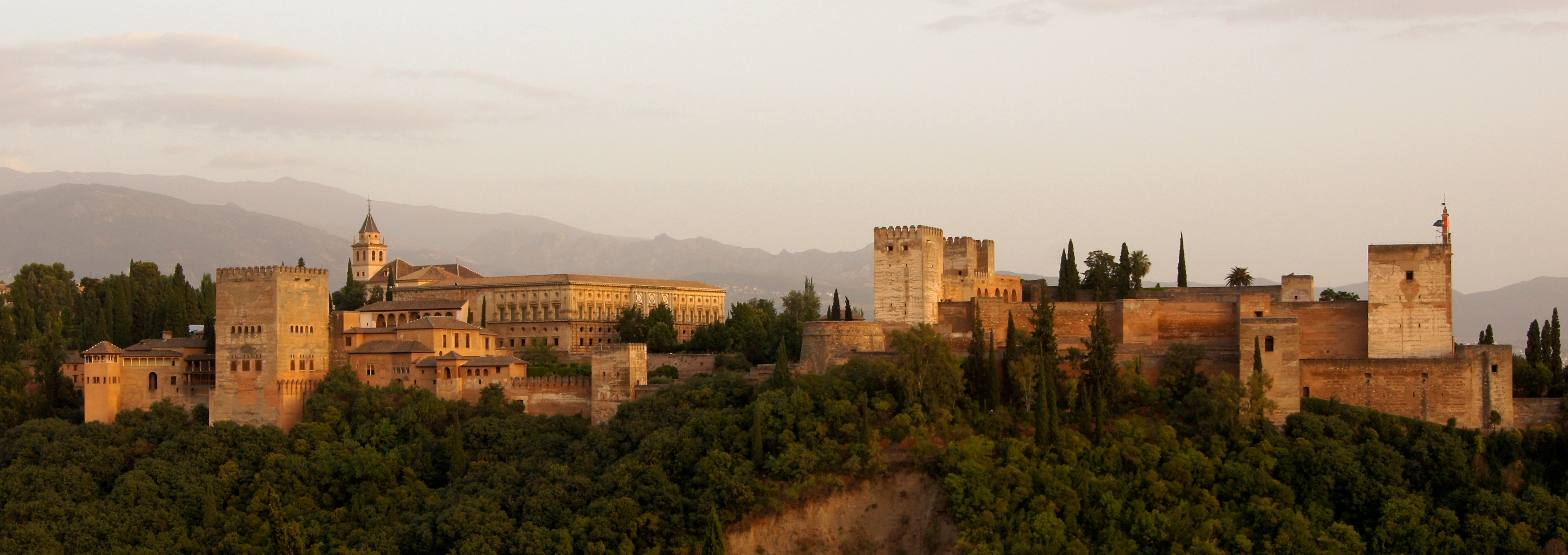 The Alhambra (The Red) in the evening light, Granada, Spain. View from mirador San Nicolas.